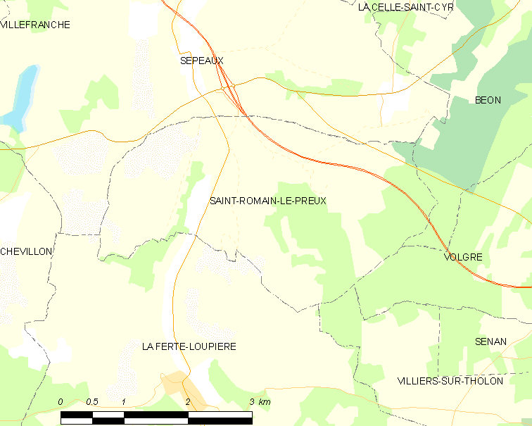 Map of French municipality Saint-Romain-le-Preux